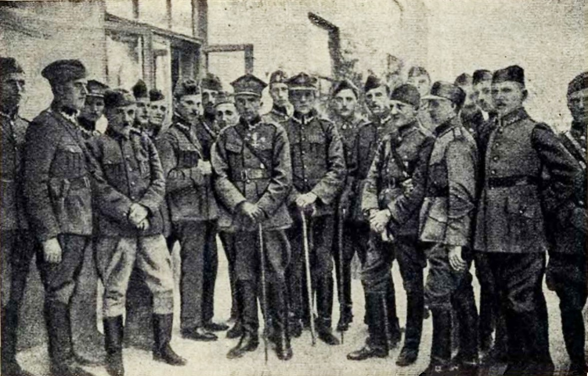 Staff of the volunteer division that captured Grodno during the Polish-Bolshevik War of 1920. Leutentant Colonel Adam Koc (decorated with the Virtuti Militari Cross) in the middle.